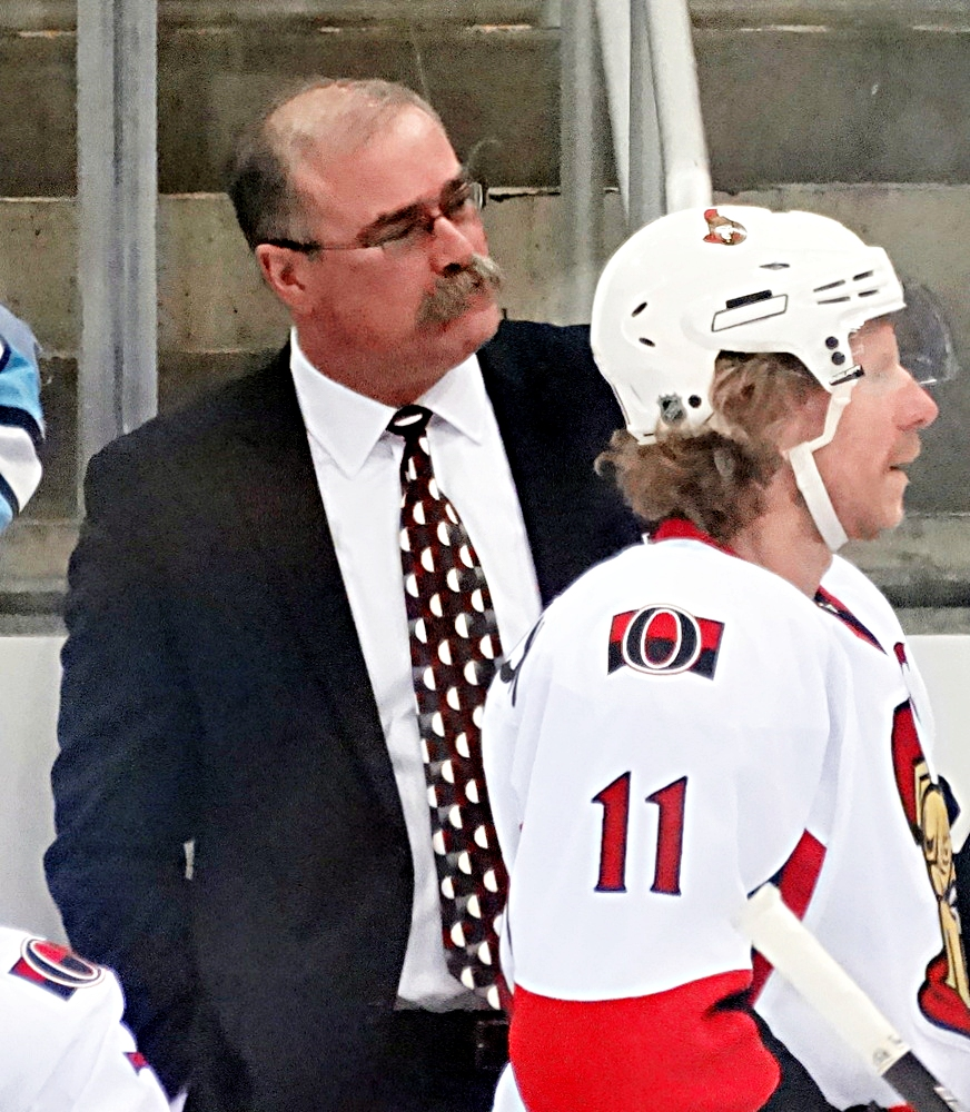 Ottawa Senators head coach behind the bench for game 5 of the 2013 Eastern Conference Semifinal series against the Pittsburgh Penguins, May 24, 2013, at Consol Energy Center in Pittsburgh, PA.